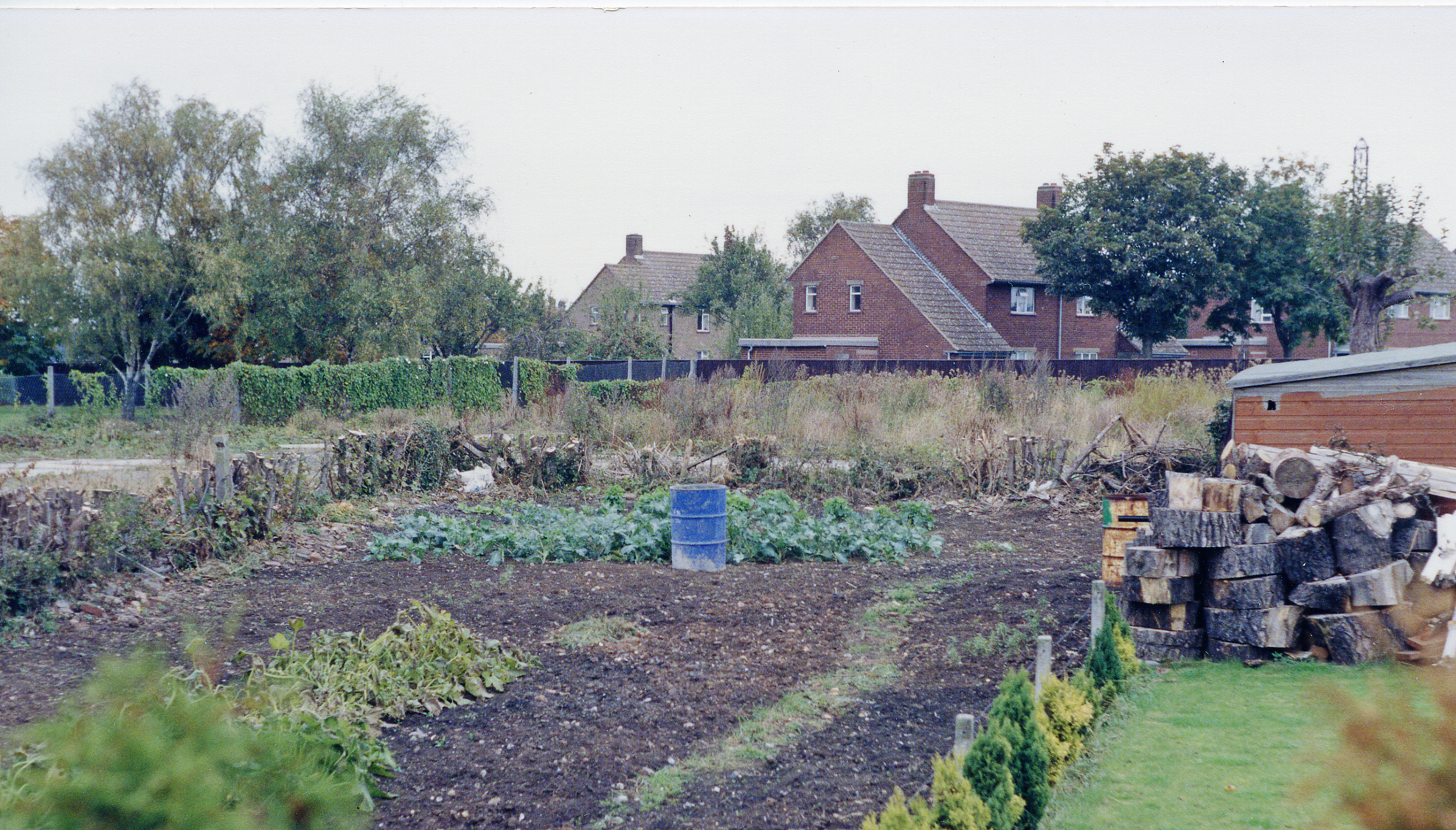 Donnington: site of former railway station, 1991. View SW: no trace left whatever, but this is towards Wellington and Shrewsbury on the secondary main ex-LNWR line from Stafford, closed to passengers 7/9/64, to goods 4/10/65. Close by to the west, was the Donnington Central Ordnance Depot (COD), to which until 1979 there was rail access from Wellington: in 2010 this line was restored, to serve the new Telford Rail Freight Depot.